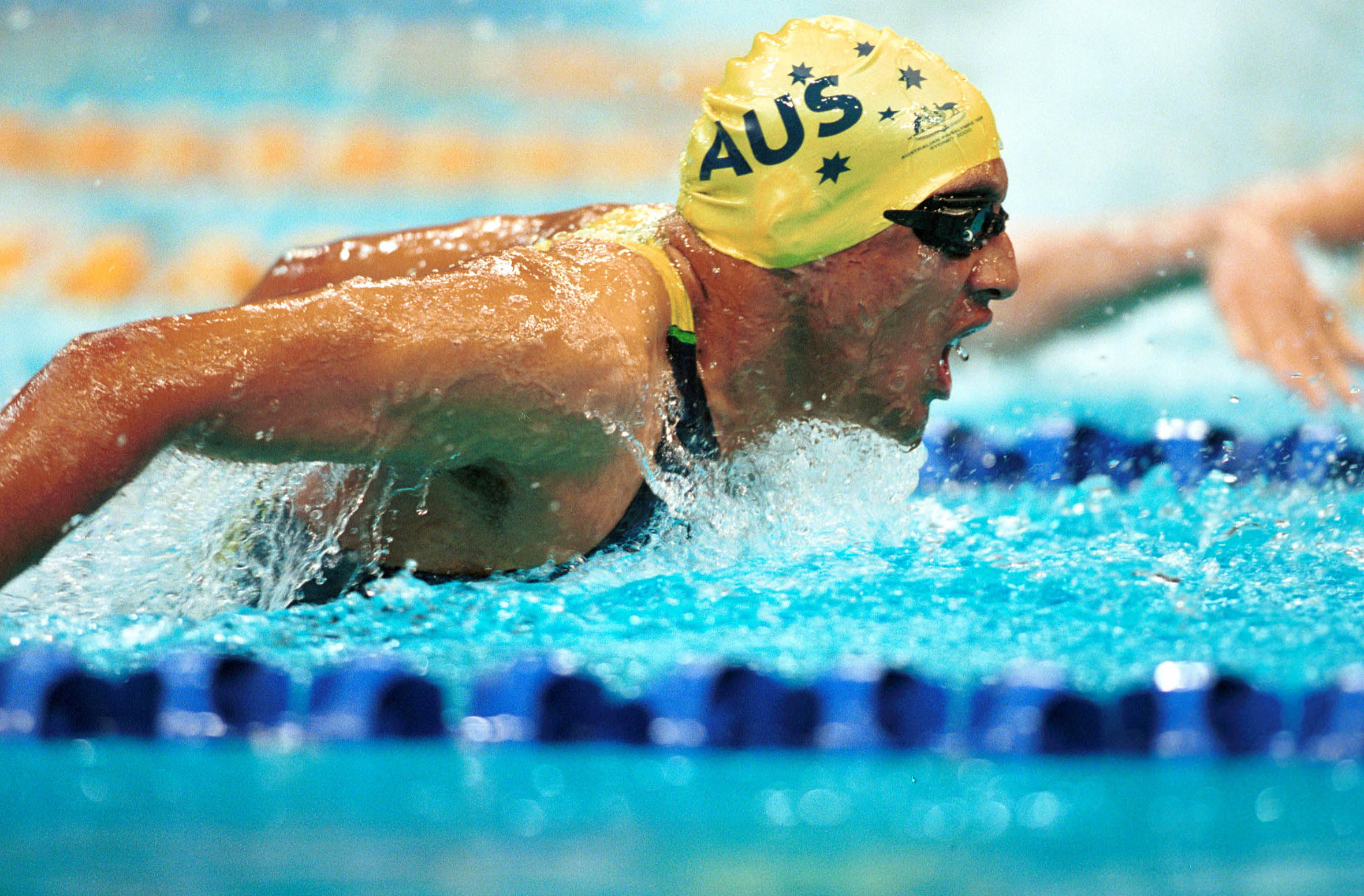 Action shot of Australian swimmer Daniel Bell in the pool during Day 03 of the 2000 Sydney Paralympic Games